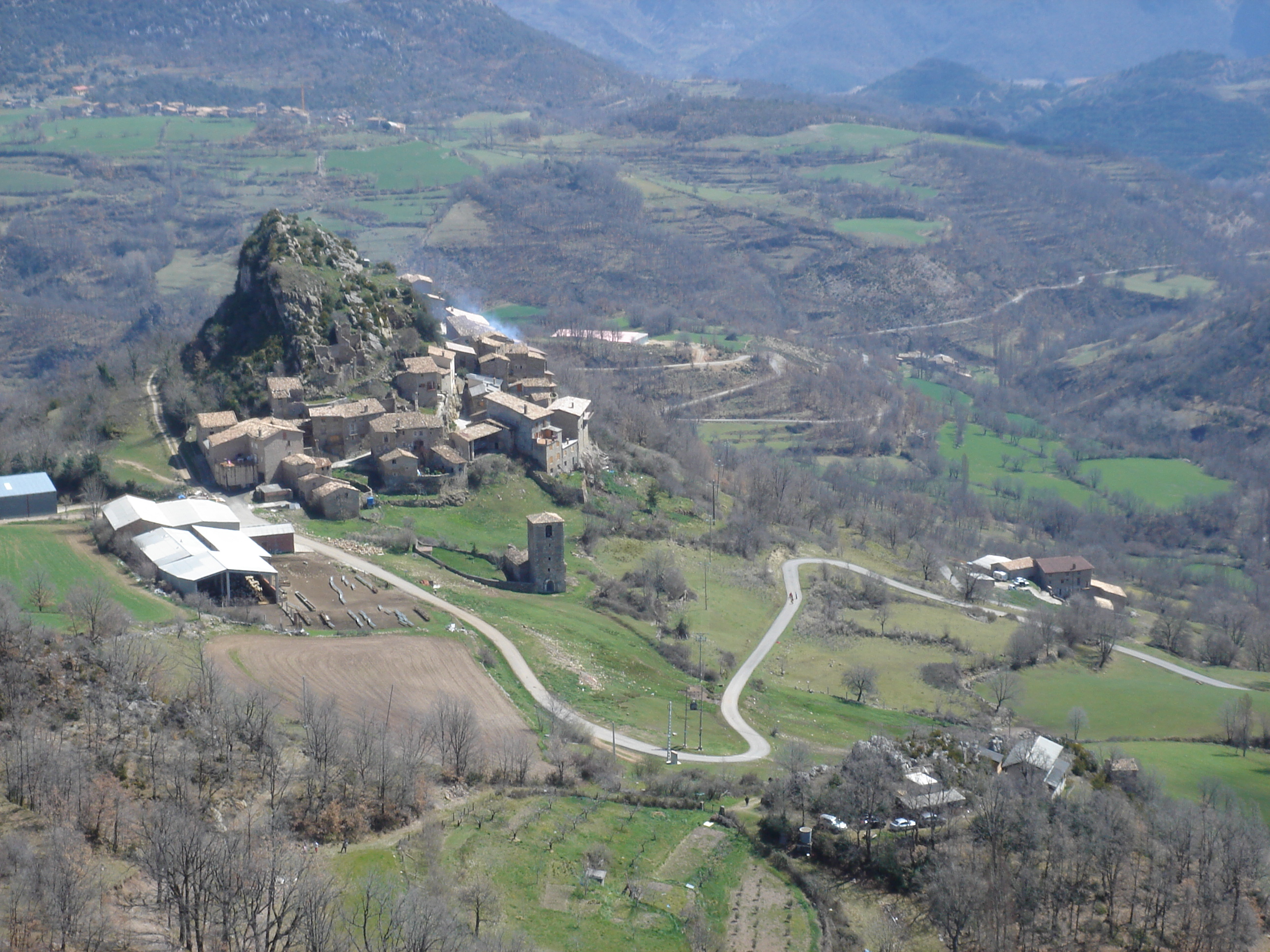 Village of Betesa